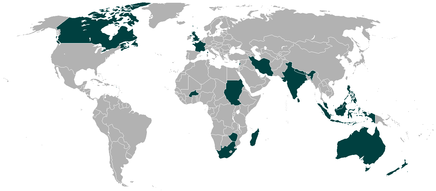 Operators of the Ferret Scout armored car.